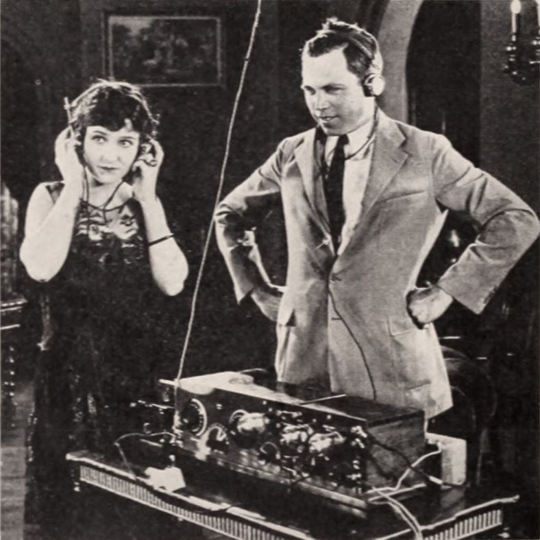 Actress Florence Vidor and her husband director King Vidor listening to an opera broadcast on their radio at home, on page 33 of the June 10, 1922 Exhibitors Herald.